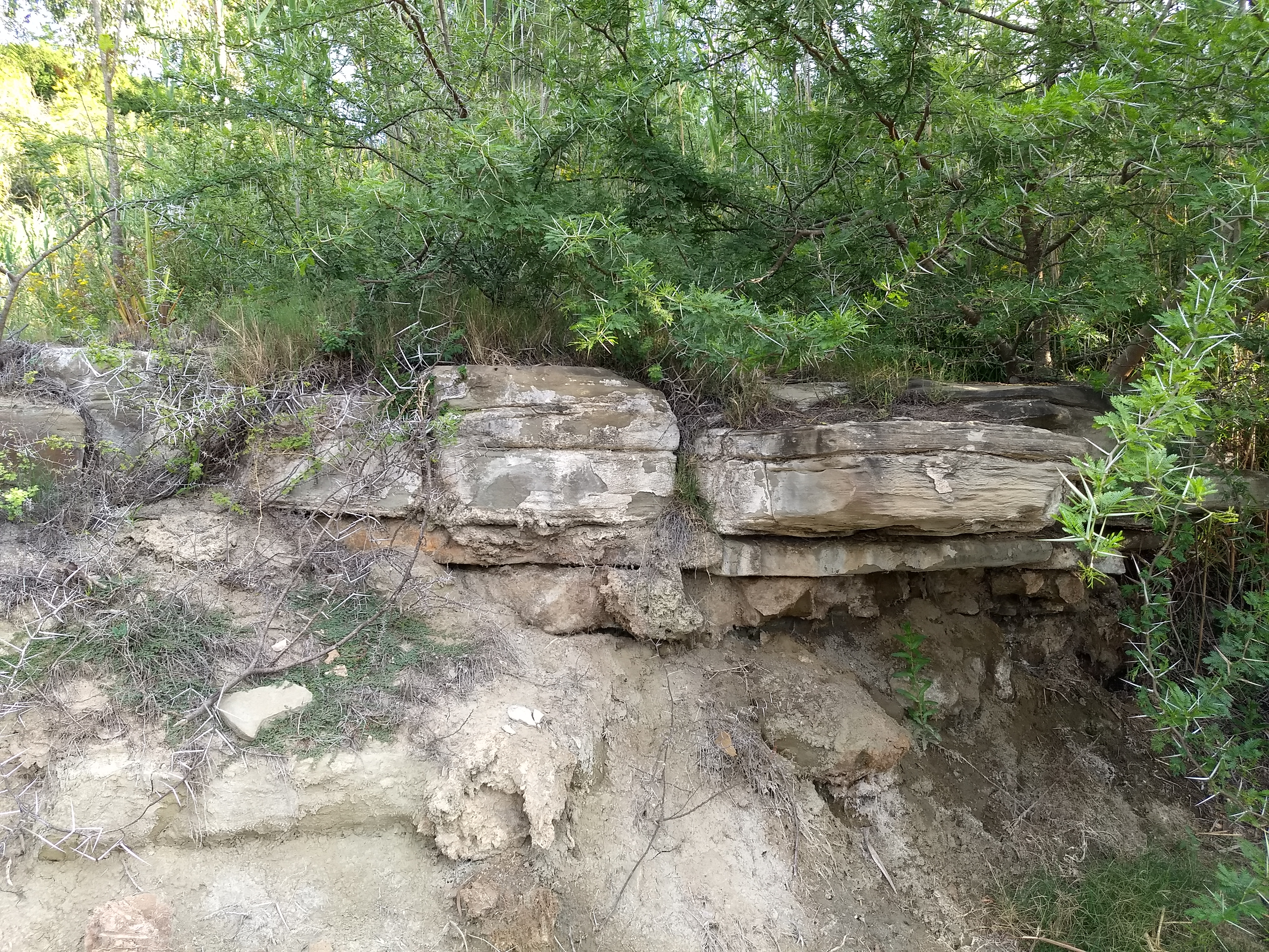 Outcrop of the Sundays River Formation on a river cliff by the Sundays River at the Avoca River Cabins, northwest of Addo, Eastern Cape, South Africa. A layer of hard fine-grained sandstone overlies softer siltstone/mudstone.